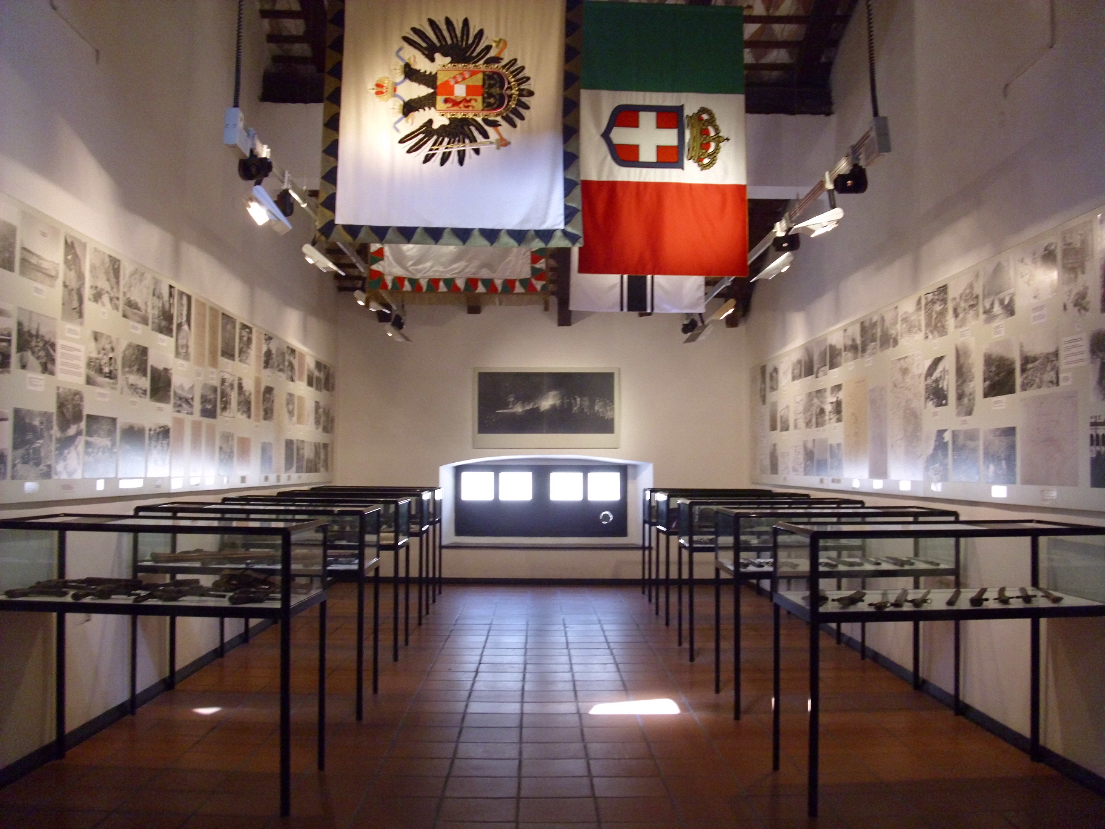 View into main exhibition room on second floor of Kobarid Museum, a private museum on the World War I in the Alps in Kobarid, Slovenia.